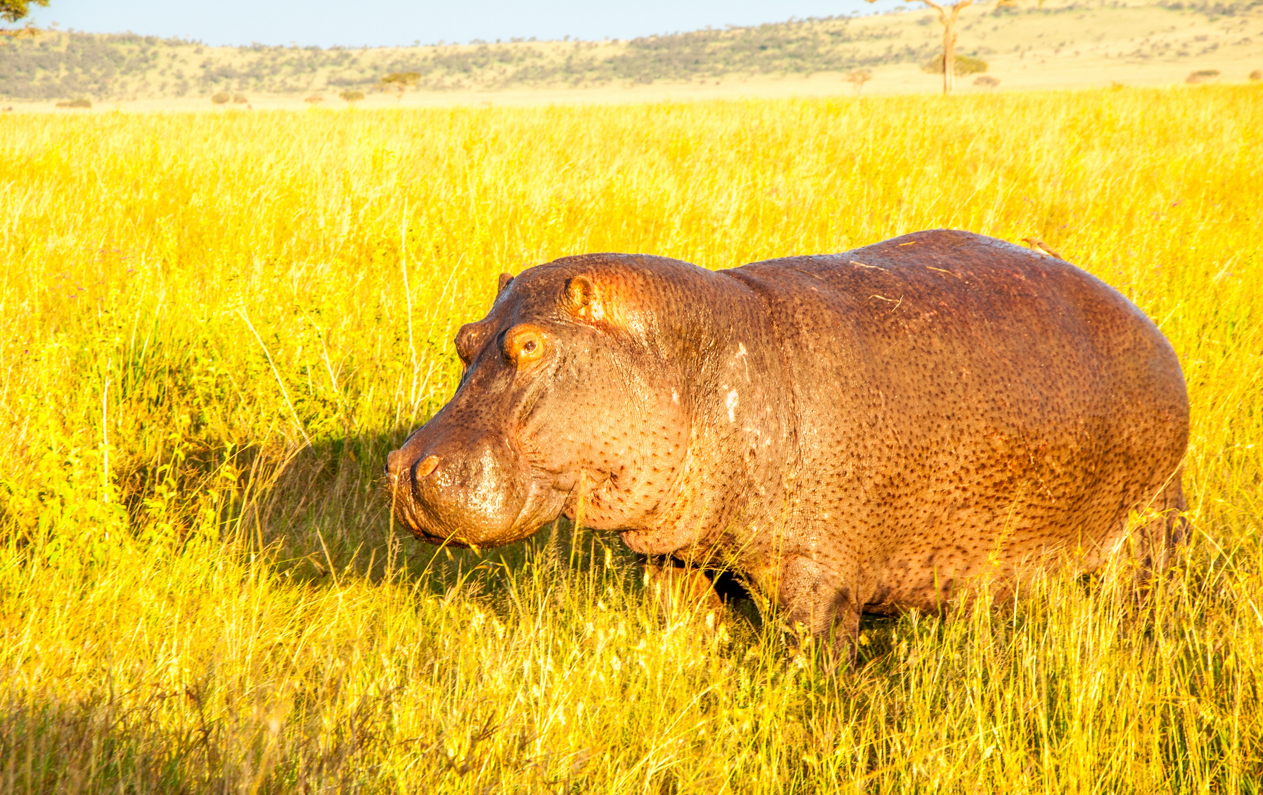 A hippopotamus walking on the grass land in Seregeti National Park in the morning